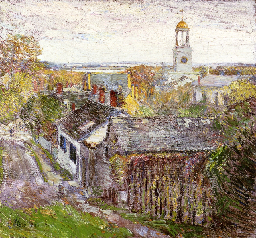 "Quincy, Massachusetts" oil on canvas, by the American artist Frederick Childe Hassam.